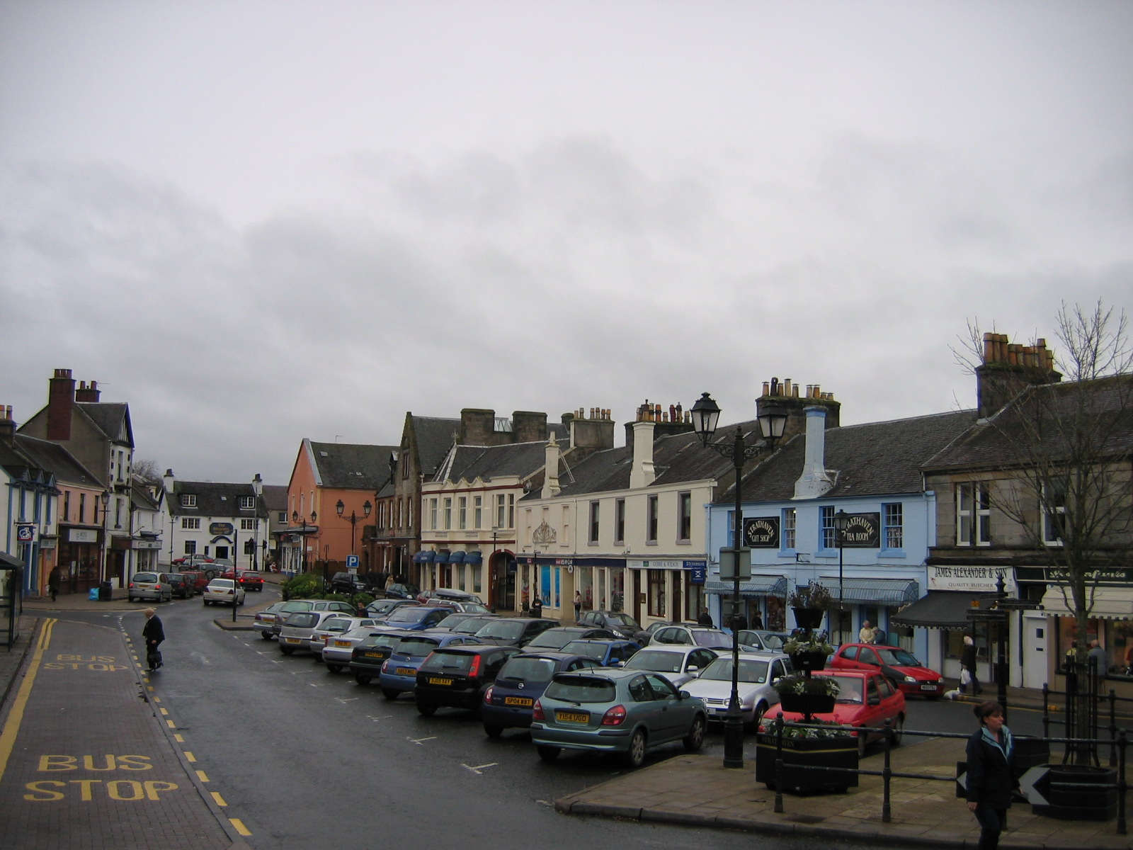 Common Green, or 'The Green', Strathaven, South Lanarkshire, Scotland. Taken by me.